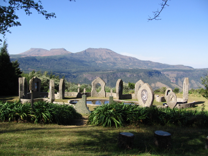 The Eco-Shrine at Hogsback, Eastern Cape.